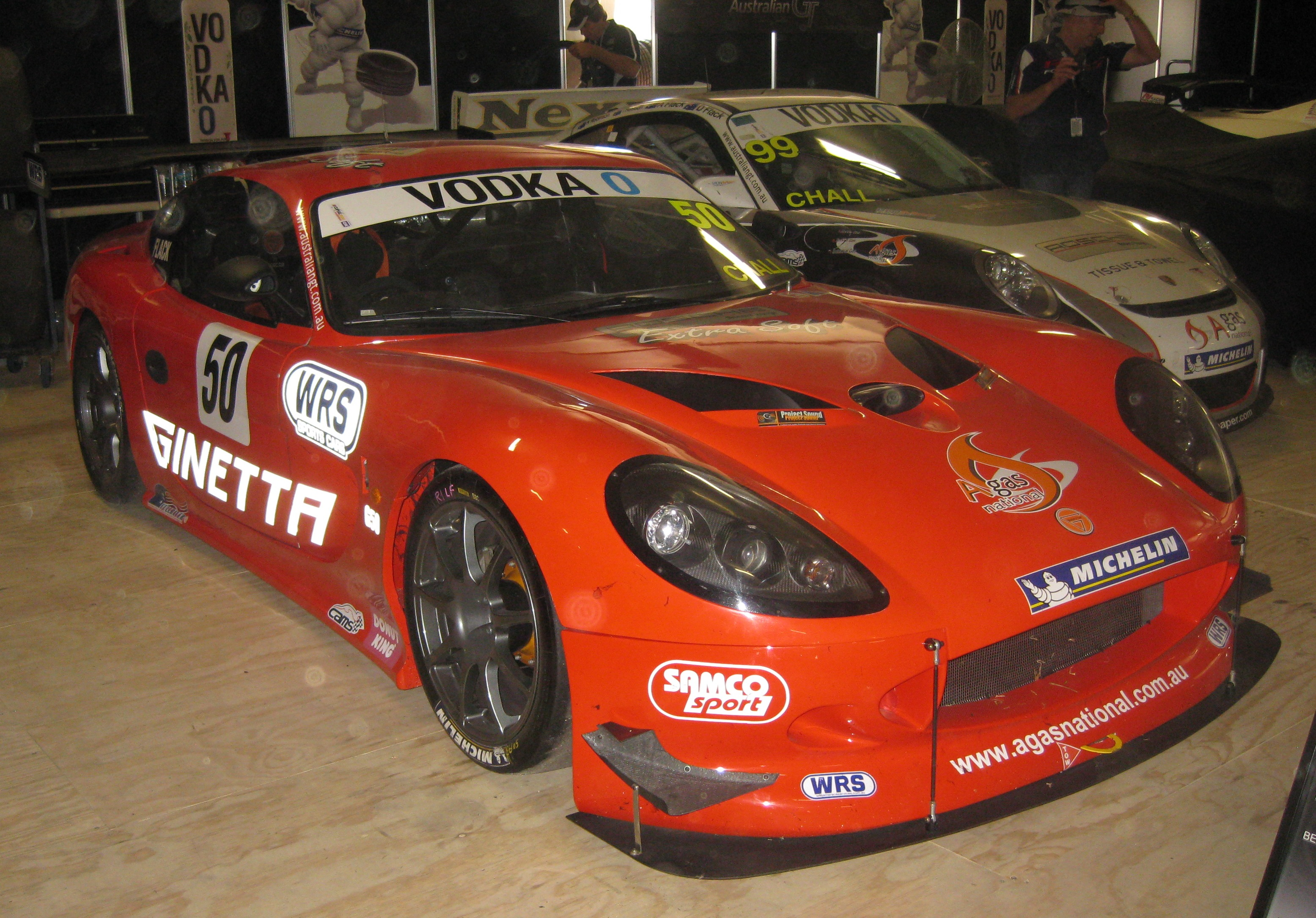 The Ginetta G50 HC of Adrian Flack at the Adelaide Parklands Circuit for the opening round of the 2011 Australian GT Championship